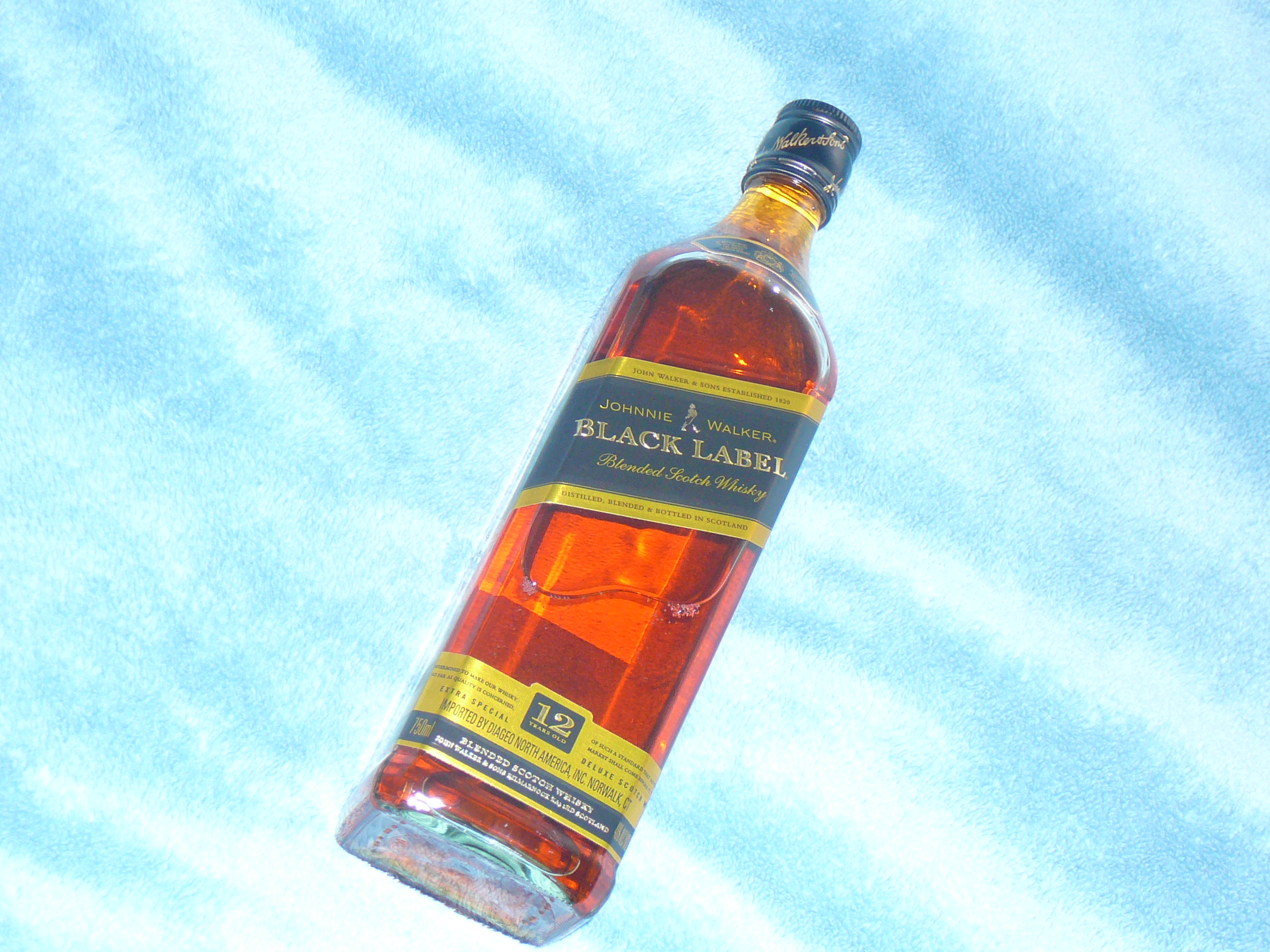 Johnnie Walker Black Label 750mL